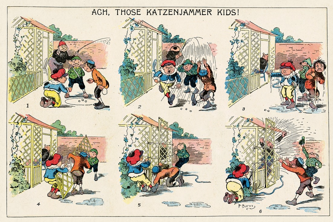 First installment of Rudolph Dirks' comic strip The Katzenjammer Kids.